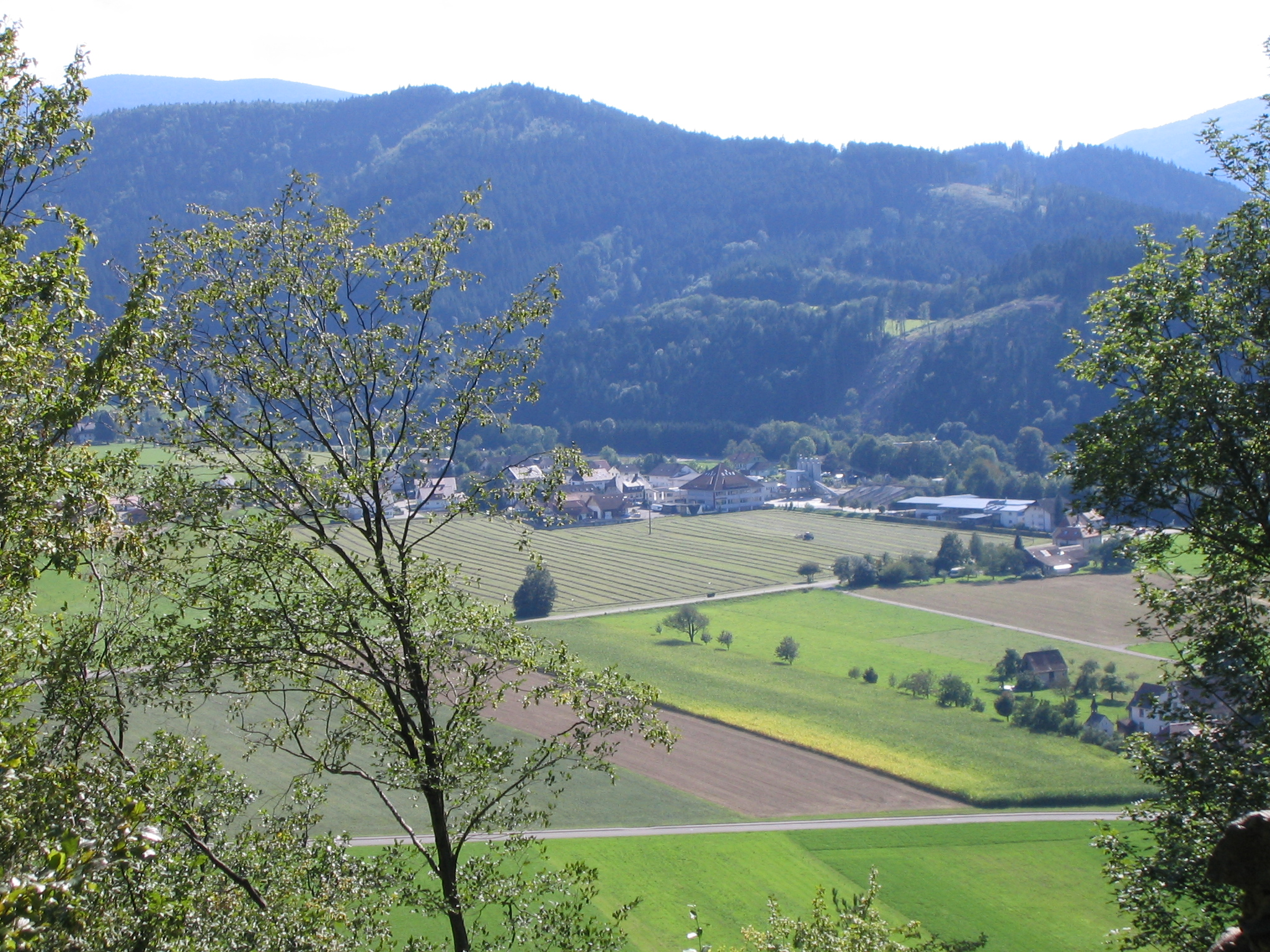 Himmelreich seen from the ruins of castle Wiesneck at Buchenbach, Black Forest